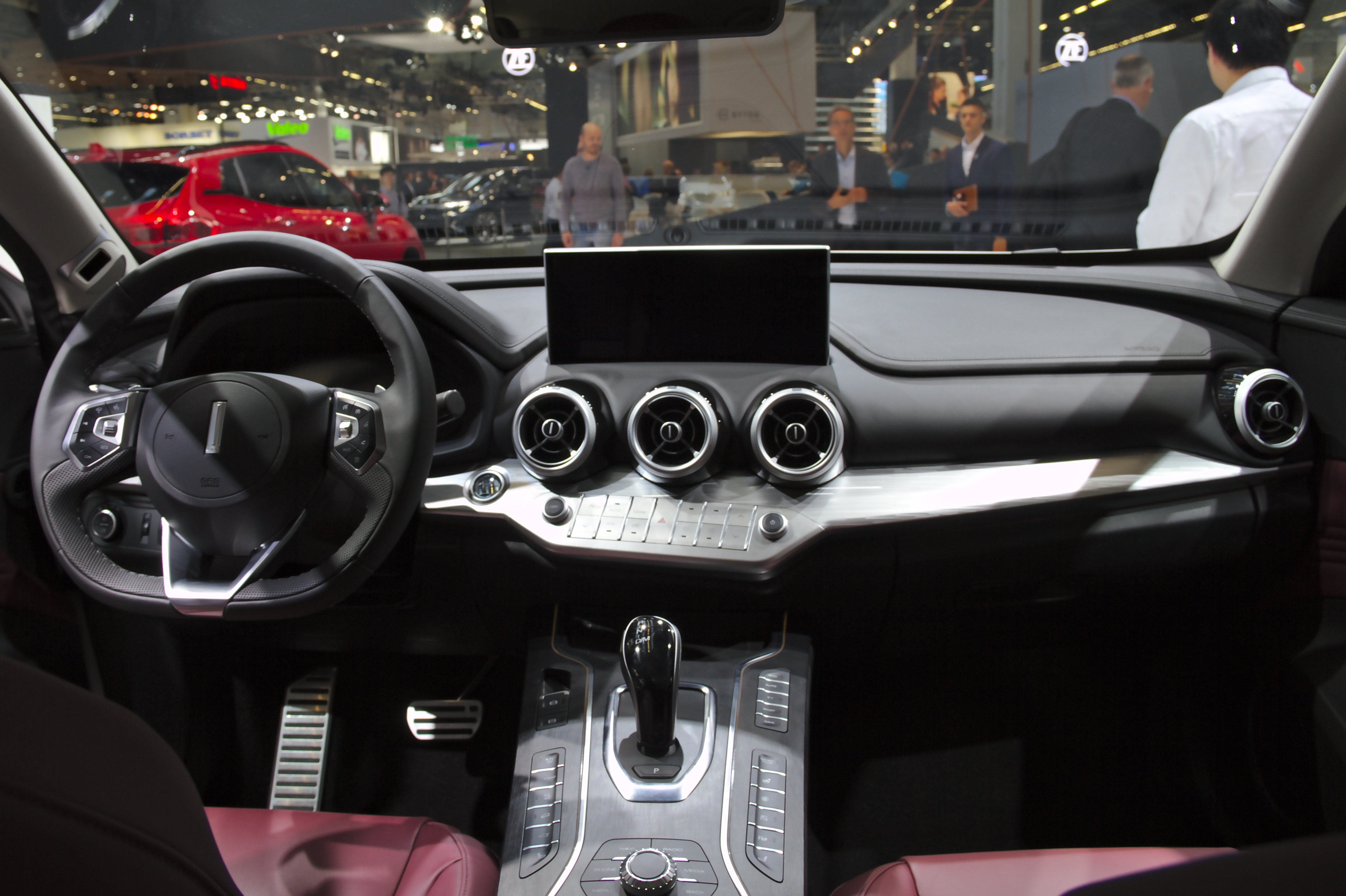 Wey_VV7_GT_PHEV at IAA 2019